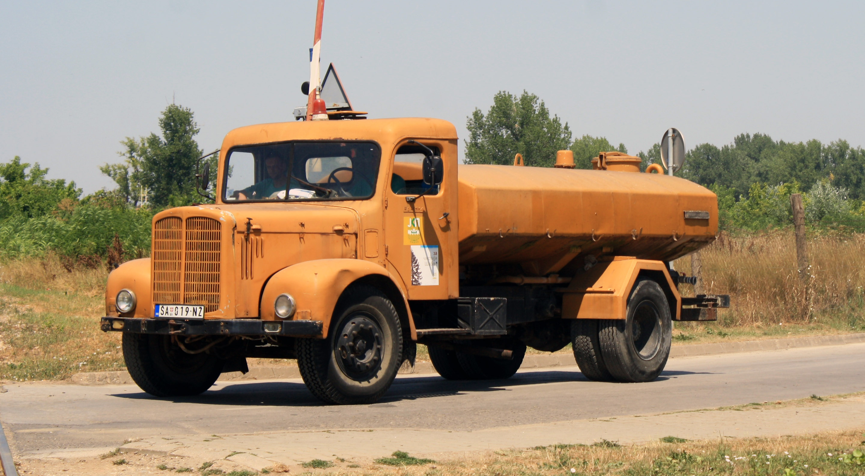 FAP 1314 cleaning truck of JKP Stari grad Šabac city public cleanliness company.